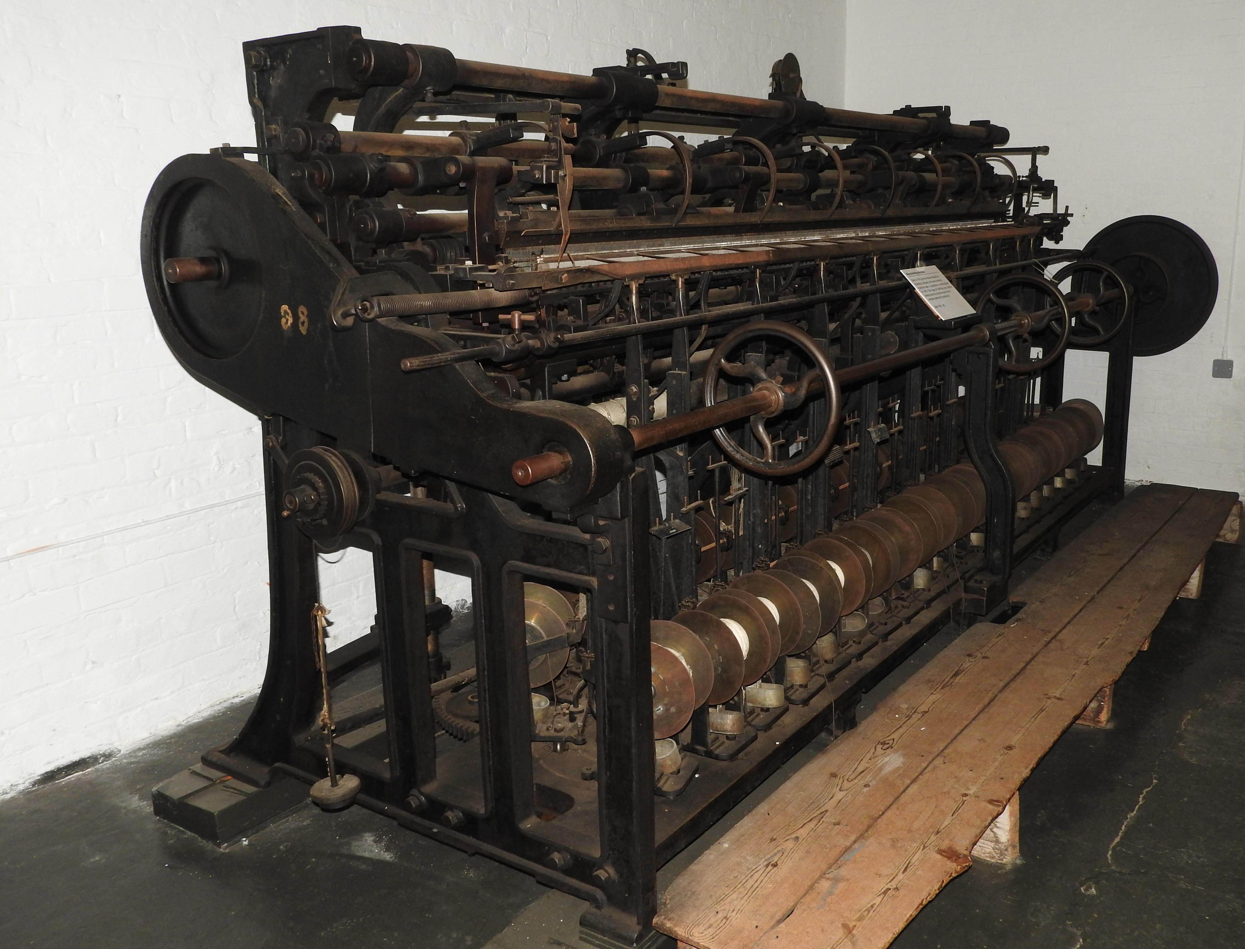 Nottingham Industrial Museum